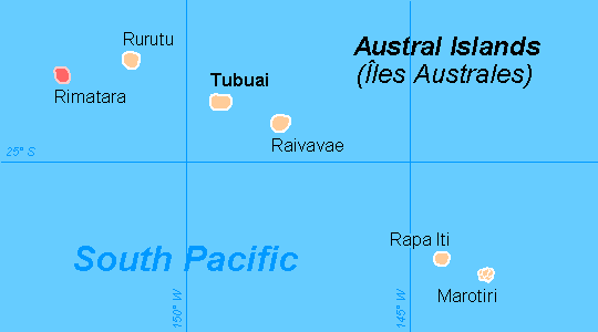 Location of Rimatara within Austral Islands